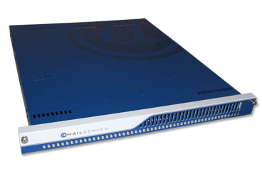 Picture of AtMail Email Appliance